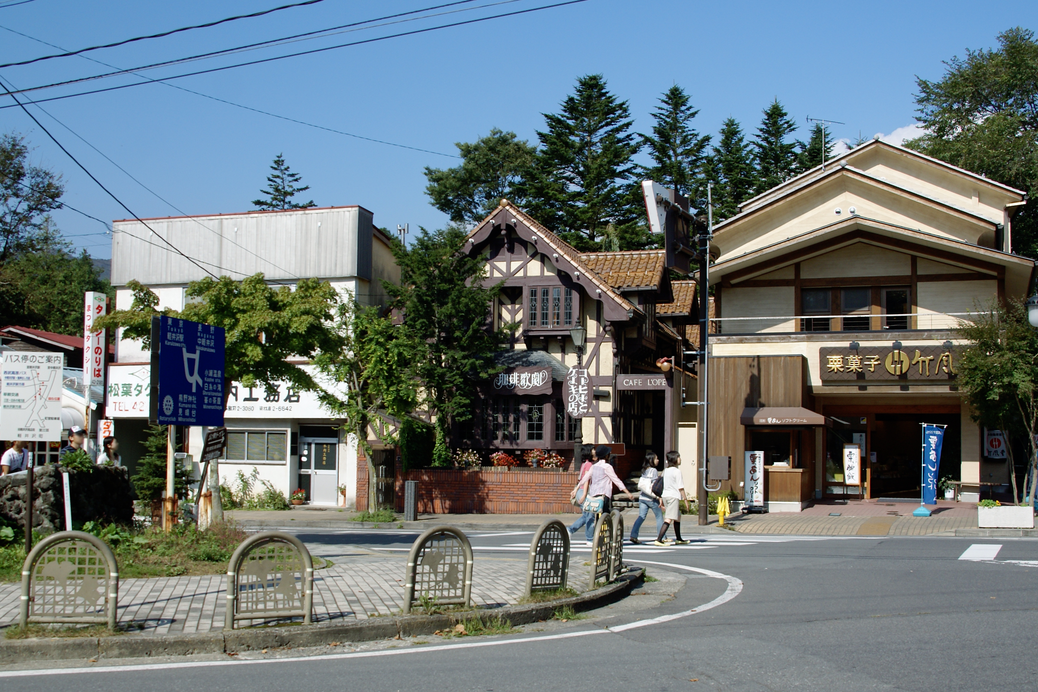 Old-Karuizawa-Rotary in Karuizawa, Nagano prefecture, Japan.